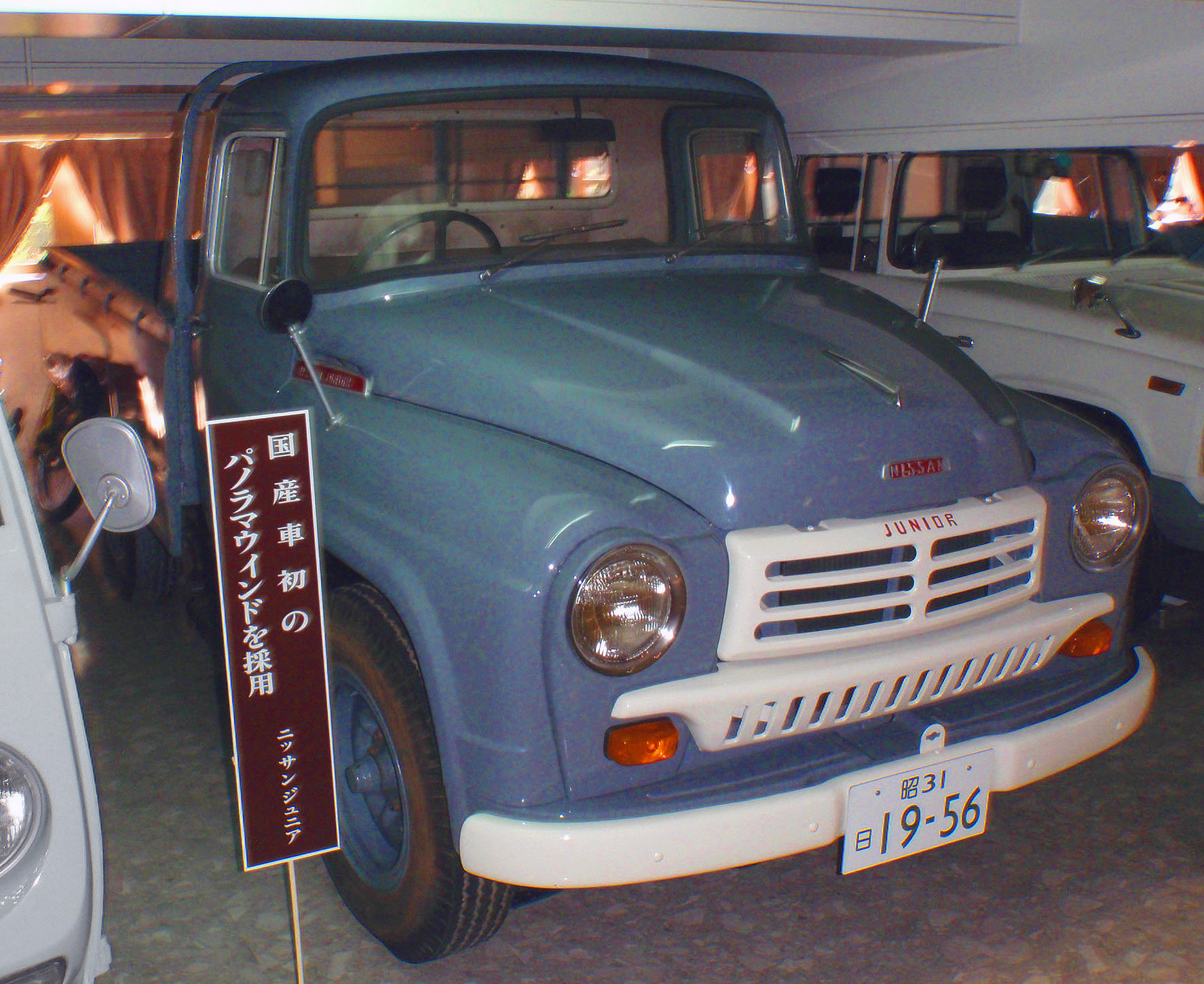 1956 Nissan Junior B40 truck at the Motorcar Museum of Japan